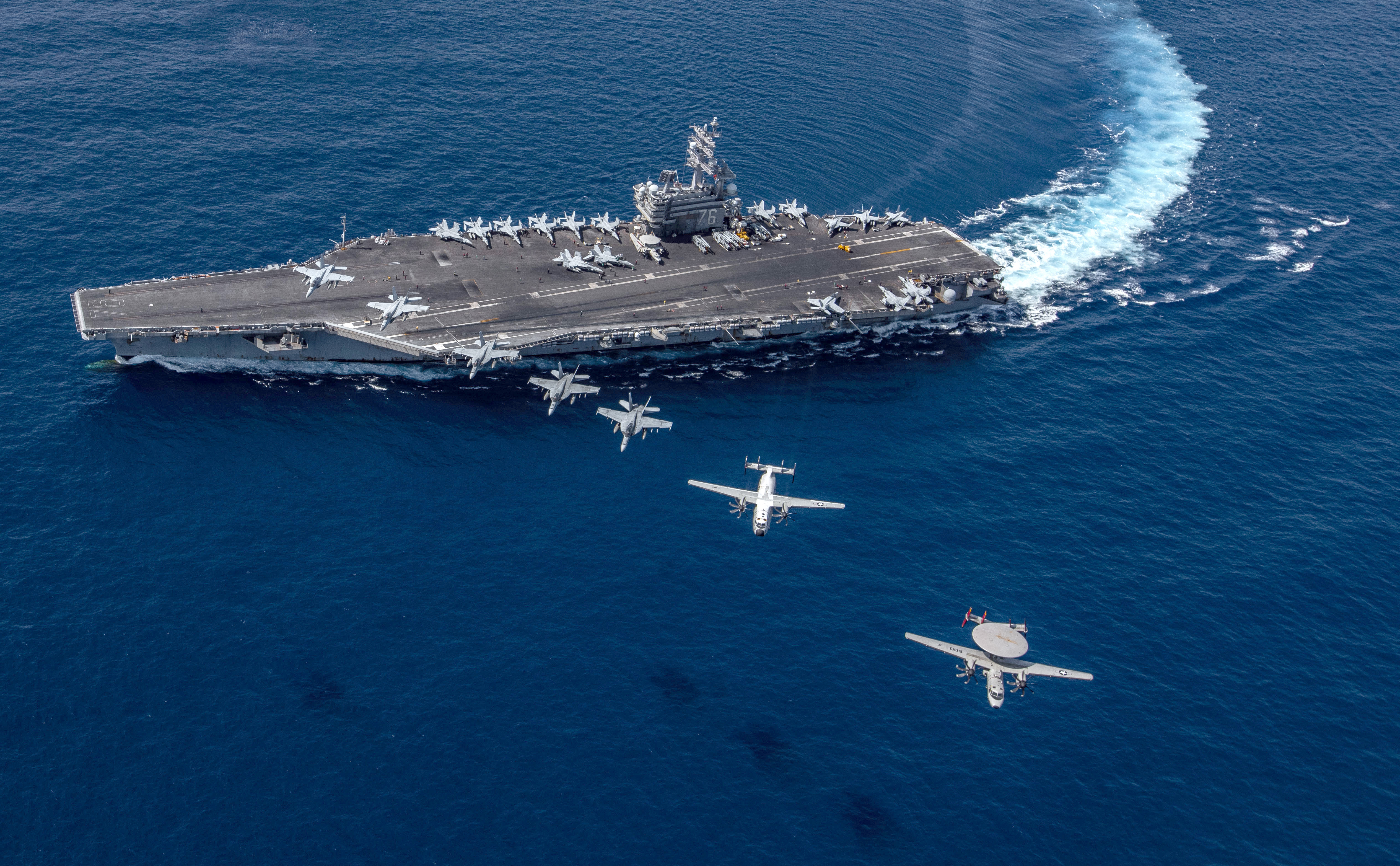 SOUTH CHINA SEA (Oct. 9, 2019) Multiple aircraft from Carrier Air Wing 5 fly in formation over the Navy’s forward-deployed aircraft carrier USS Ronald Reagan (CVN 76). Ronald Reagan, the flagship of Carrier Strike Group 5, provides a combat-ready force that protects and defends the collective maritime interests of its allies and partners in the Indo-Pacific region. (U.S. Navy photo by Mass Communication Specialist 2nd Class Kaila V. Peters/Released)191009-N-PJ626-0130